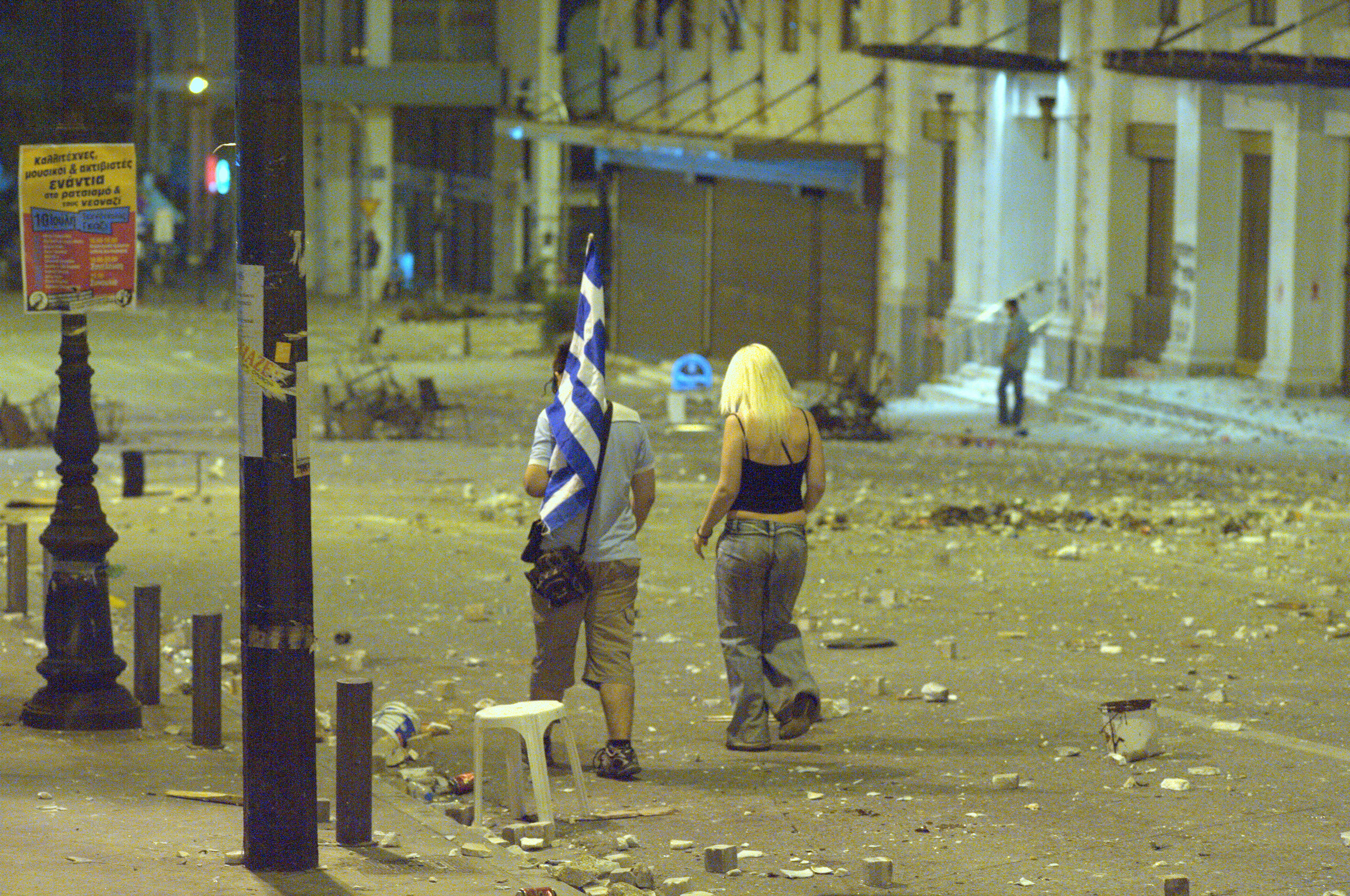 "Indignados" at Syntagma Square Athens Greece.